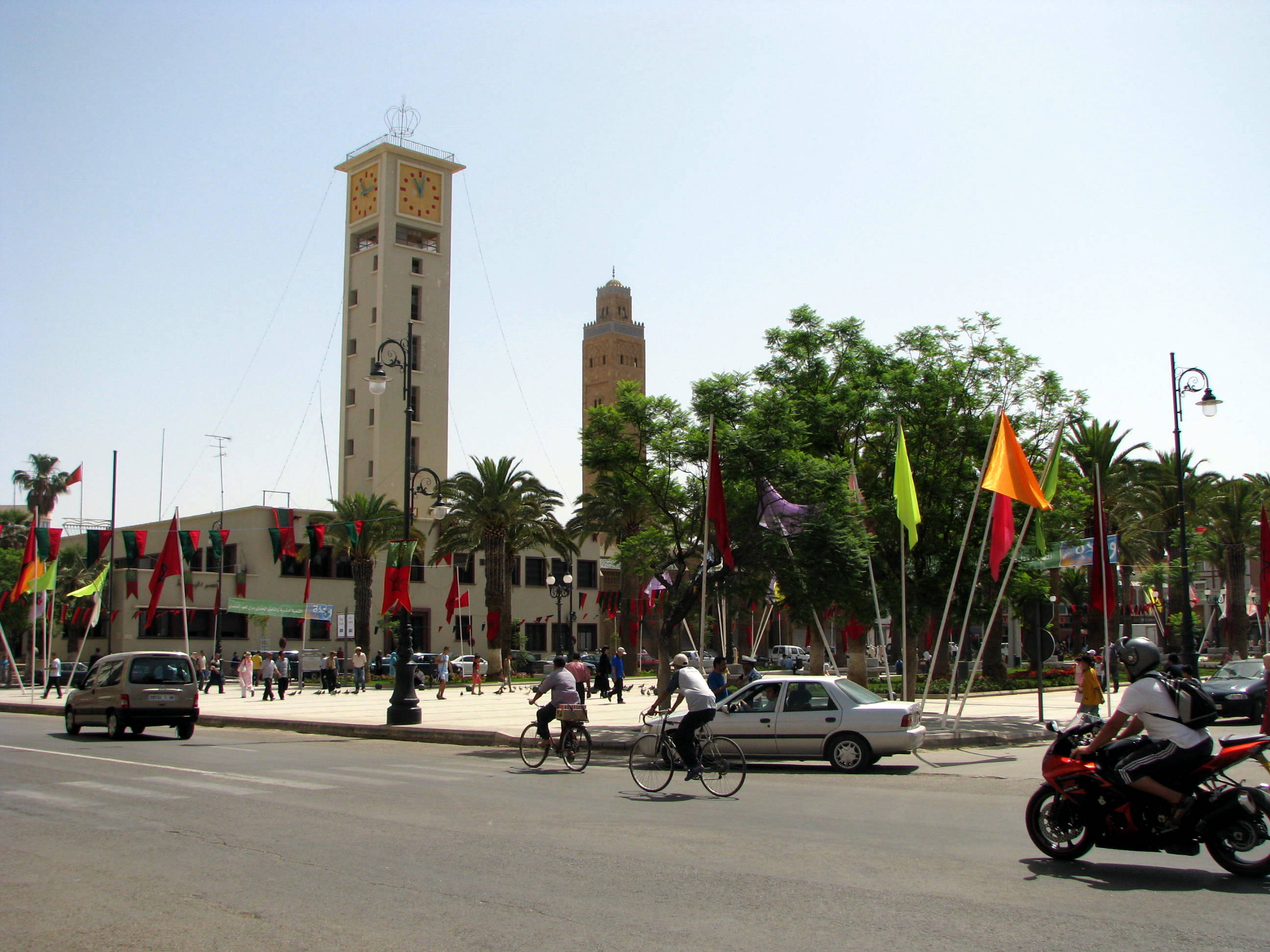 Oujda : City hall, mosque and place